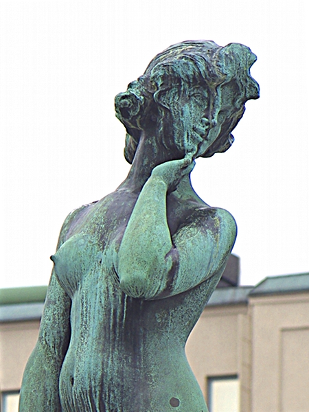 Detail of the Havis Amanda statue located at the Kauppatori place in the center of Helsinki